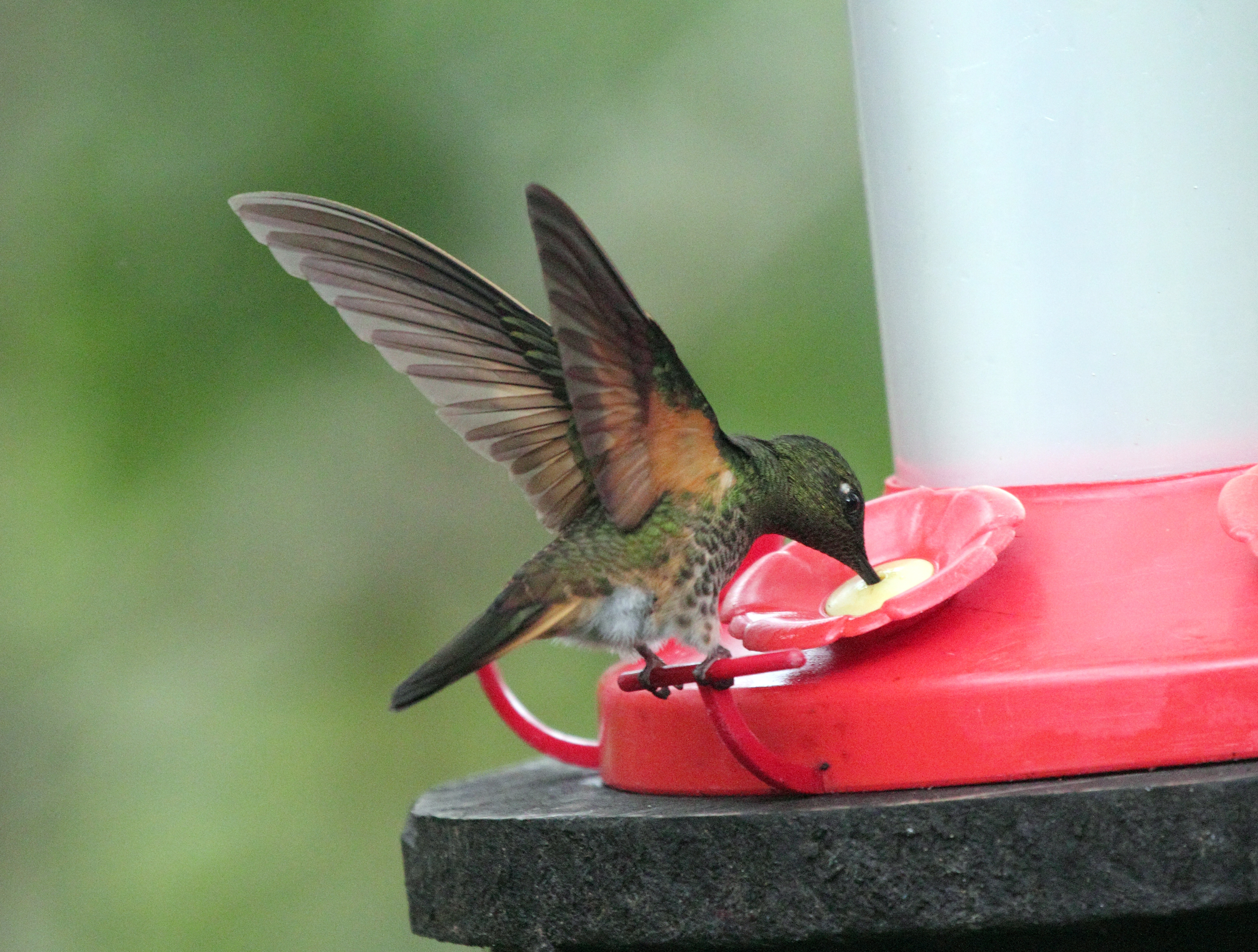 Buff-tailed Coronet at a feeder at Bellavista Lodge near Mindo in Ecuador.